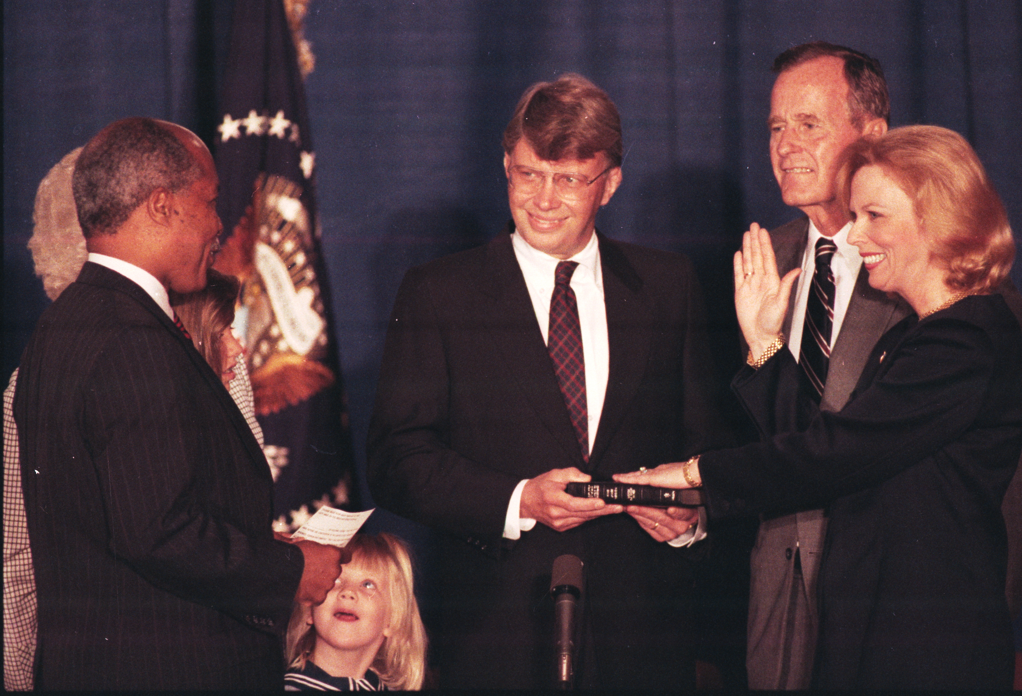 Sworn in as the first woman director at the National Institutes of Health. Healy was appointed by President George H.W. Bush in 1991.